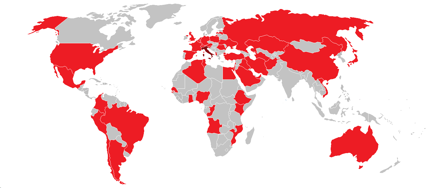 Foreign trips of Italian Prime Minister Matteo Renzi Italy Countries visited by Renzi